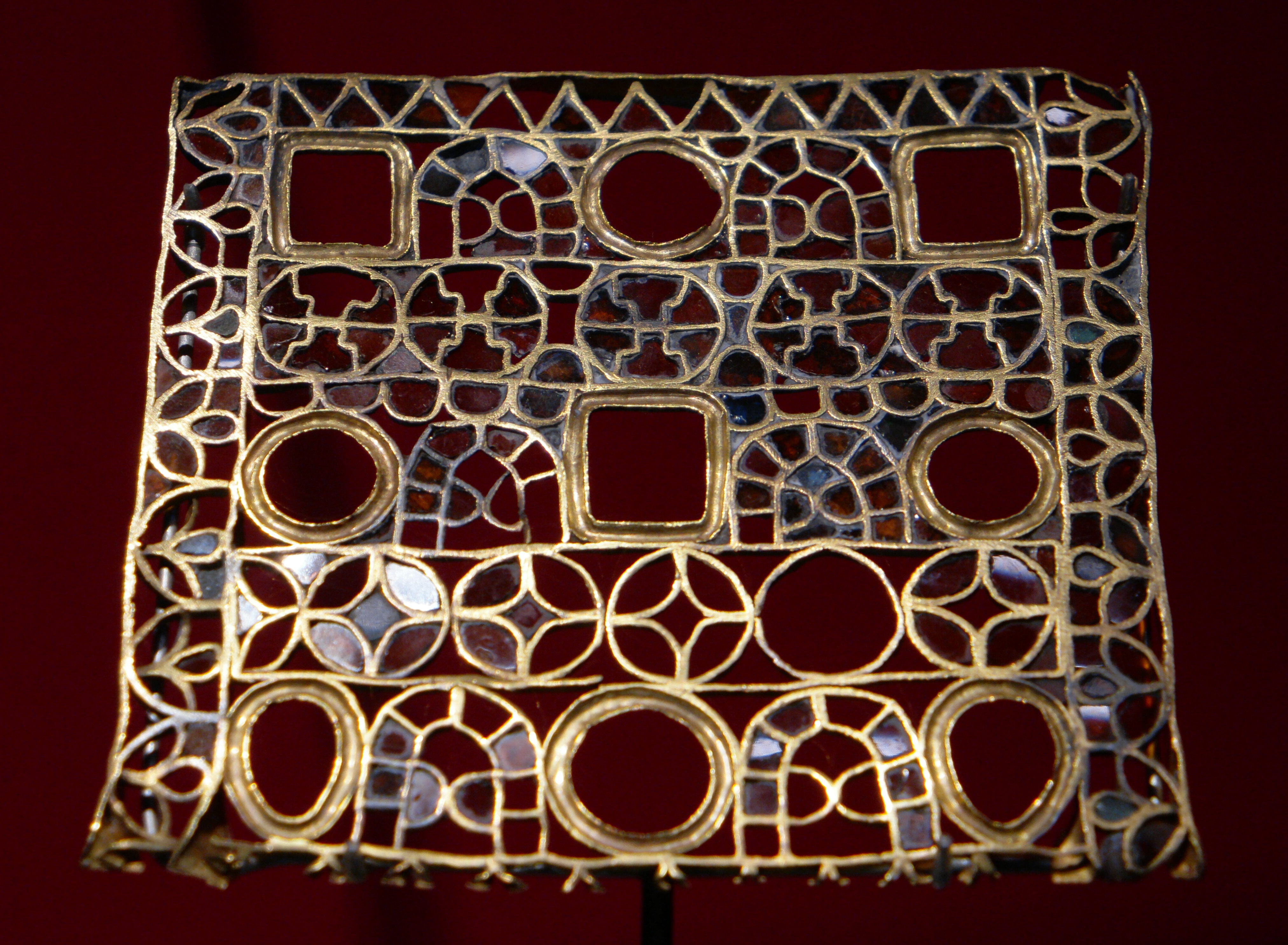 Fragment of the Cross of Saint Éloi